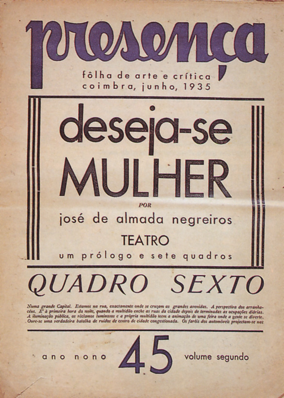 Almada Negreiros, Deseja-se Mulher, 1935 (magazine cover)